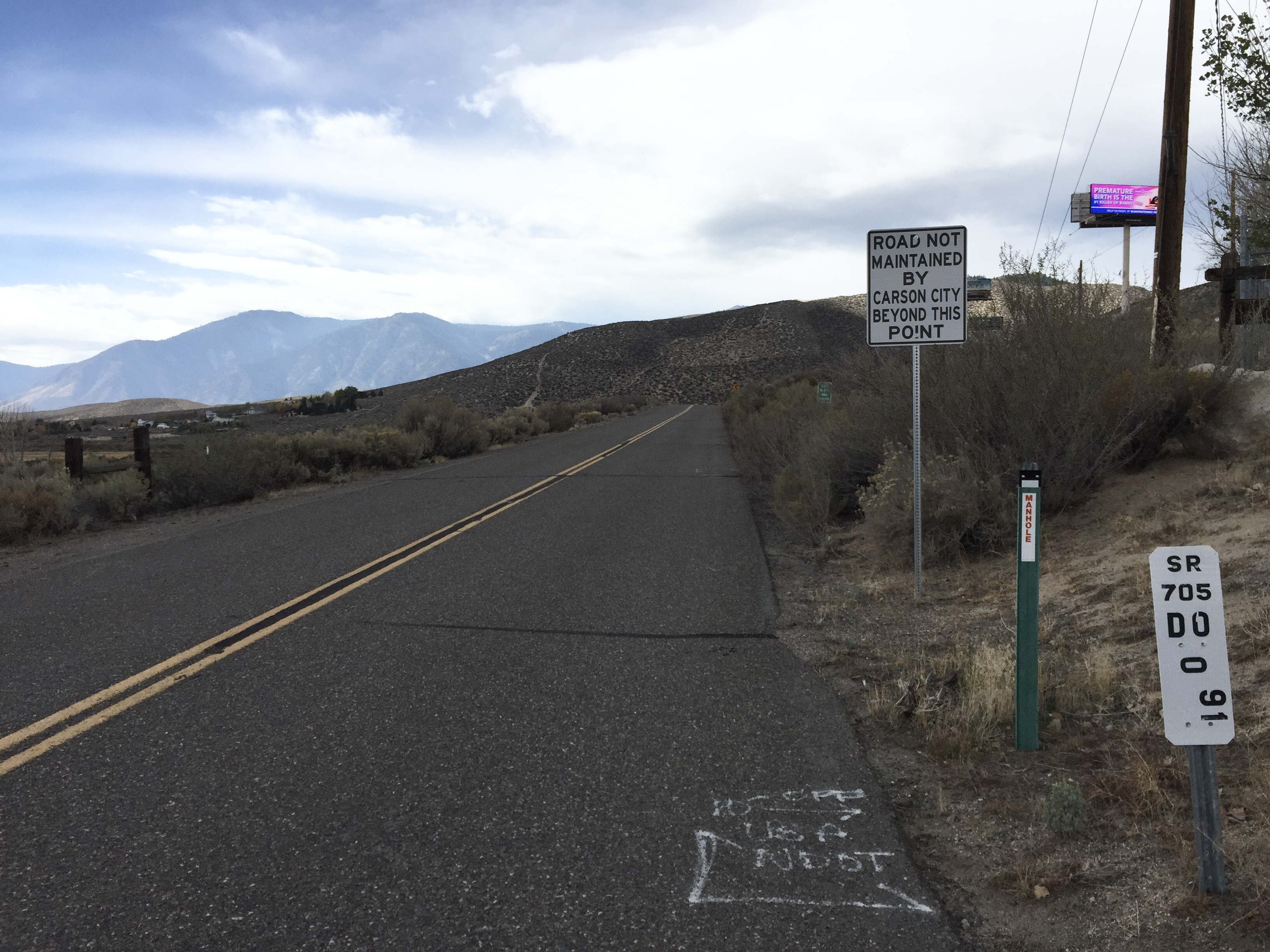 View west from the east end of Nevada State Route 705 (Clear Creek Road) in Douglas County, Nevada